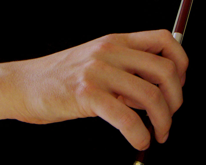 Position of the right hand on a violin bow.